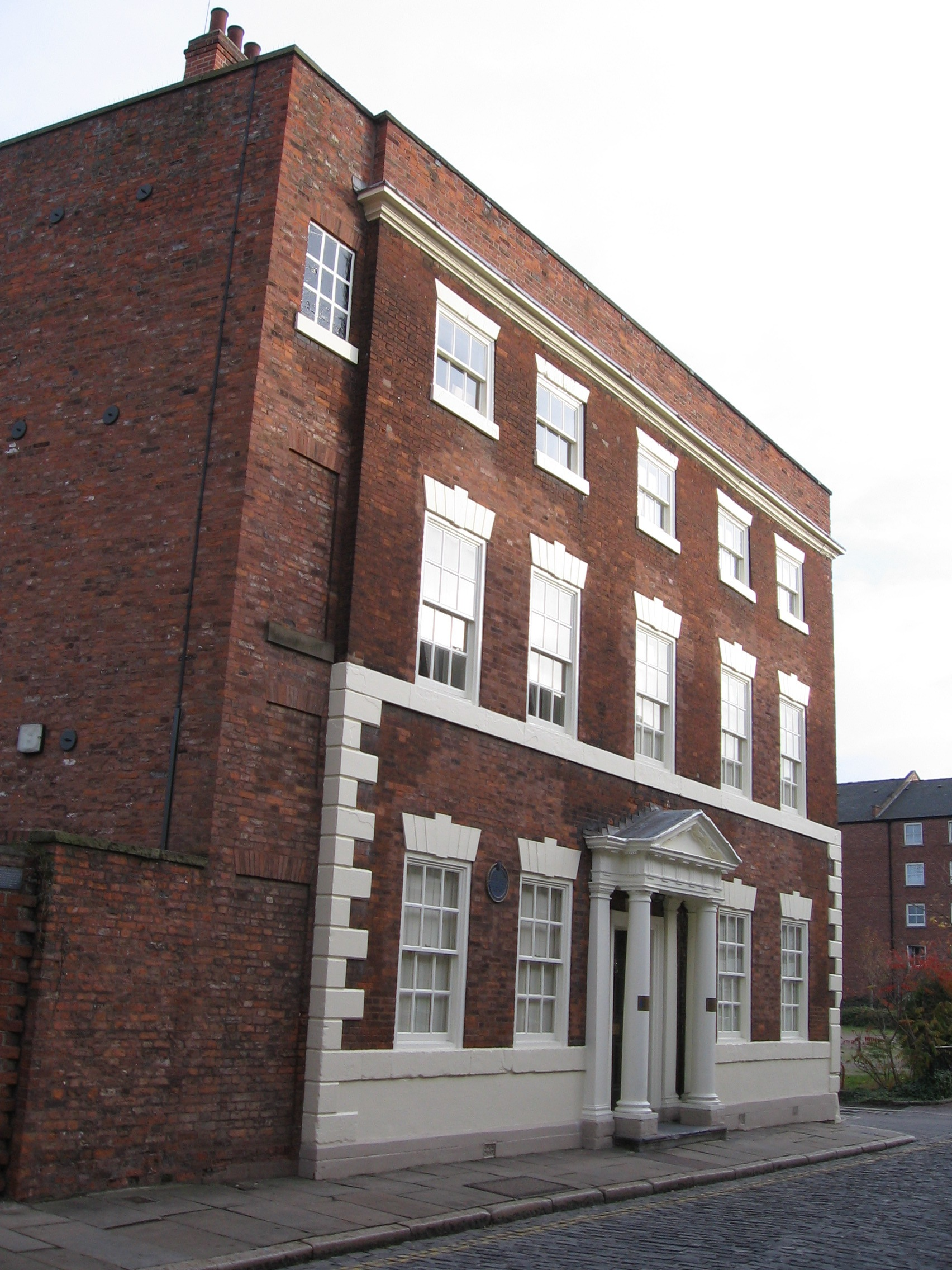 Photo taken by me on 12 November 2006. Blaydes House, High Street, Hull, East Riding of Yorkshire, England.